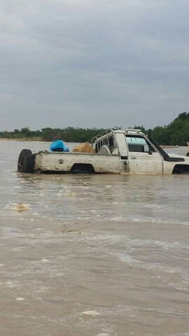 صورة لسيارة وهي تعبر الوديان في فصل الخريف This is an image with the theme "Africa on the Move or Transport" from: Sudan